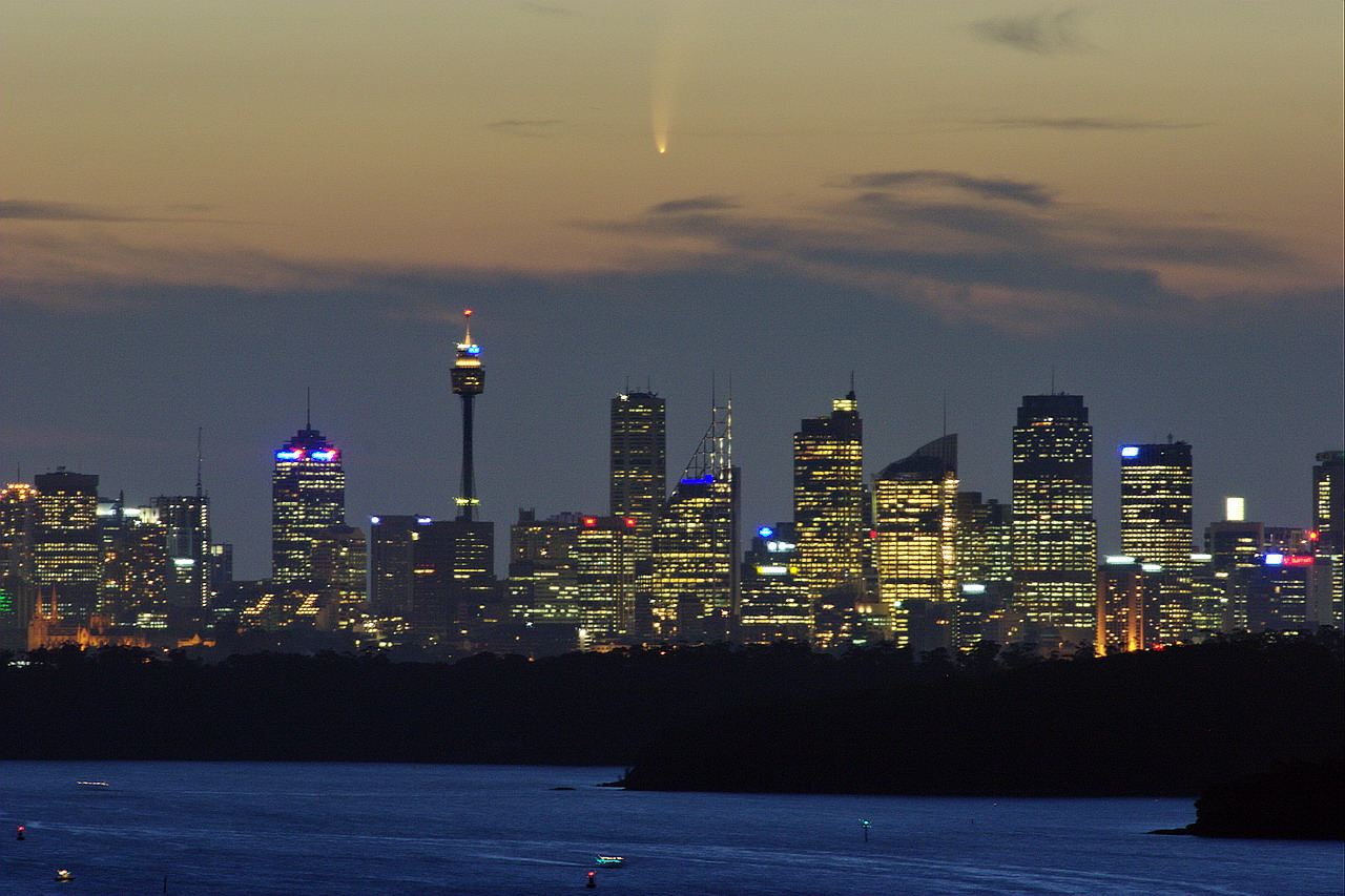 Comet C/2006 P1 (McNaught). Image taken from North Head at Sydney Harbour, Sydney, Australia on the evening of January 16, 2007